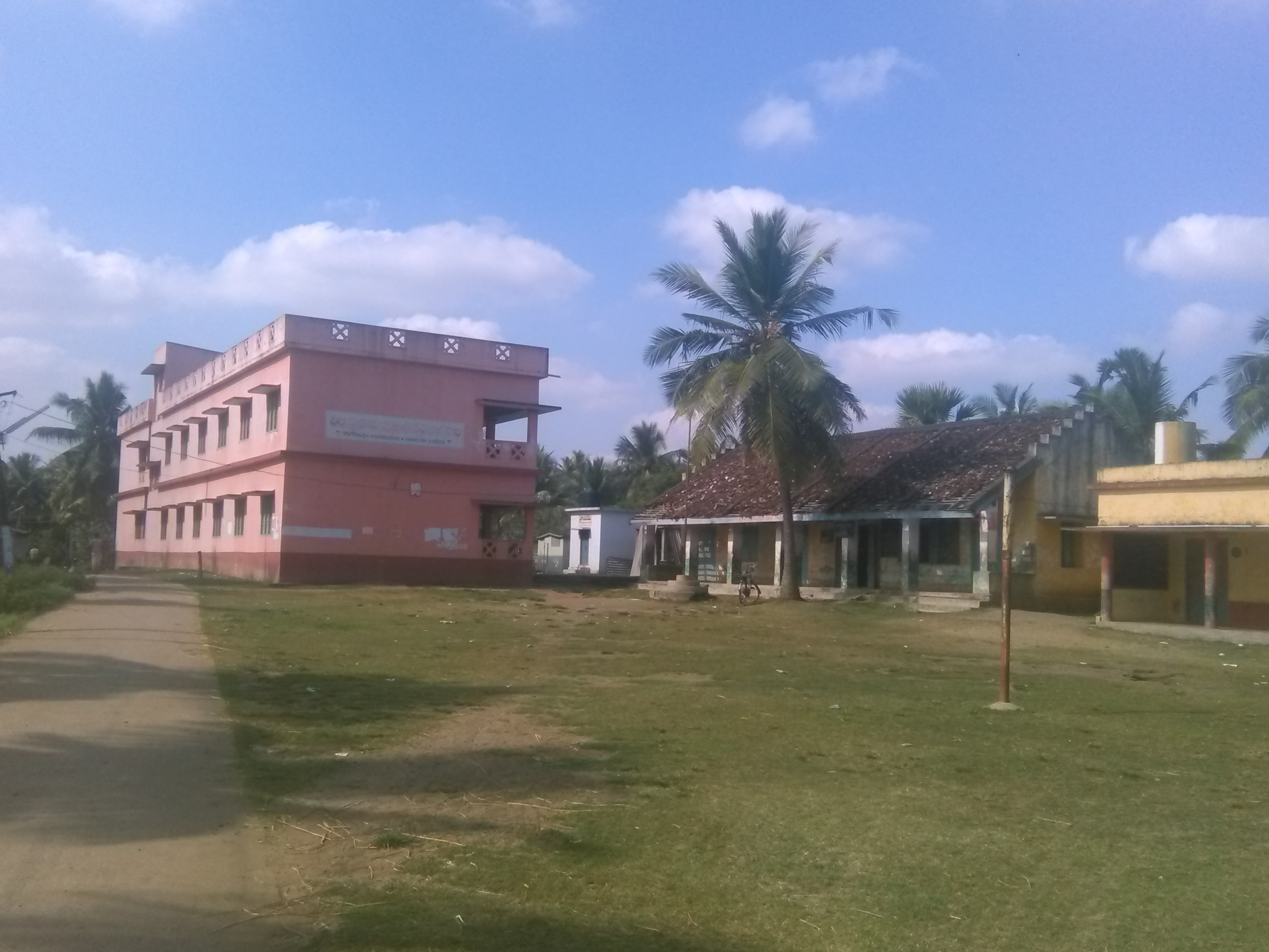 A.P. village of Karugorumilli (1)